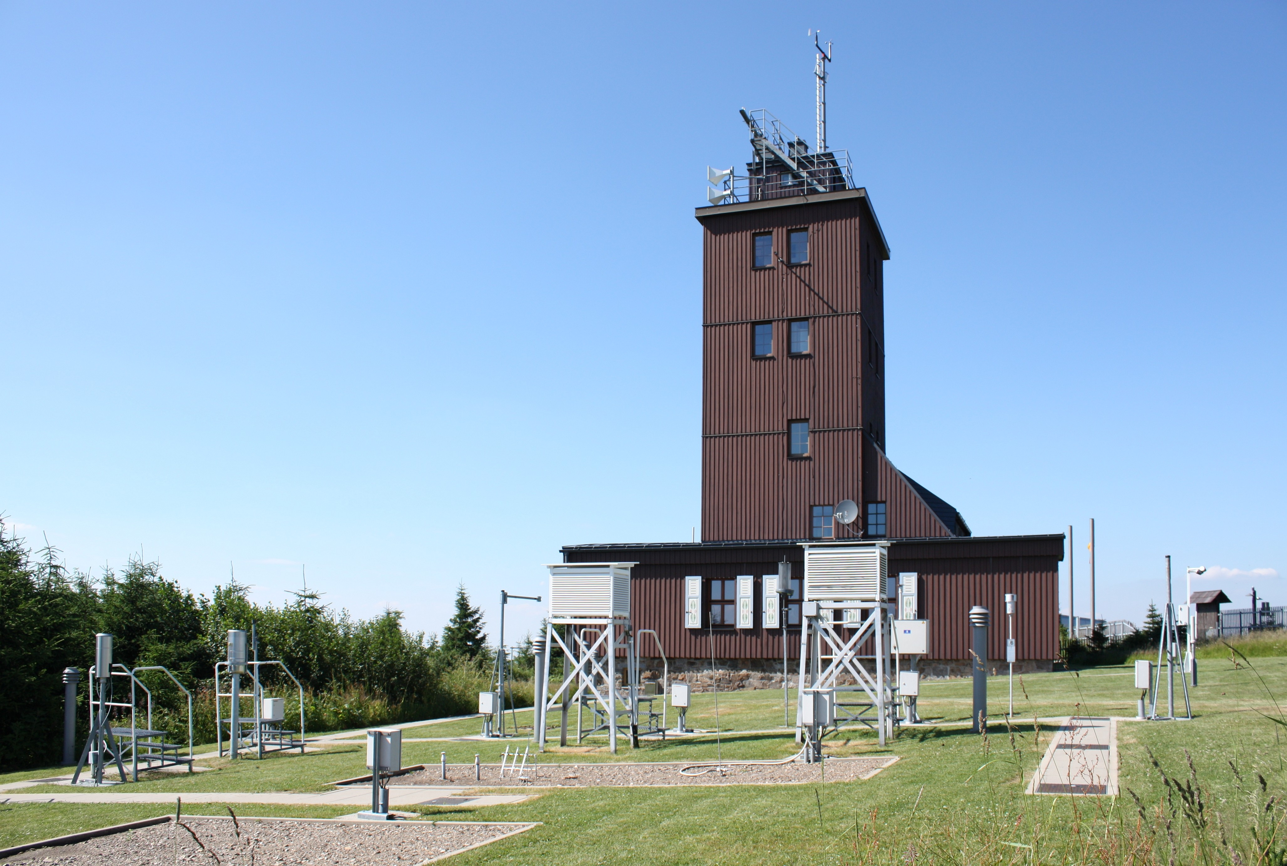 Weather Station Fichtelberg, Germany